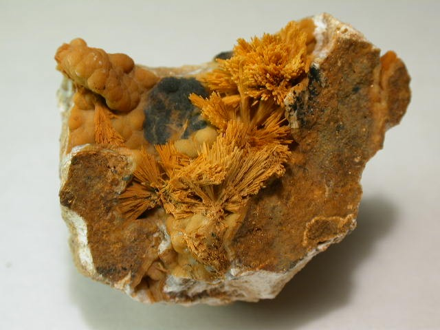 Crandallite Locality: Moculta Phosphate Quarry (Klemm's Quarry), Angaston, Barossa Valley, North Mt Lofty Ranges, Mt Lofty Ranges, South Australia, Australia Original description: A 3.2 by 2.4 cms piece with yellow crystals. JSS specimen and photograph.